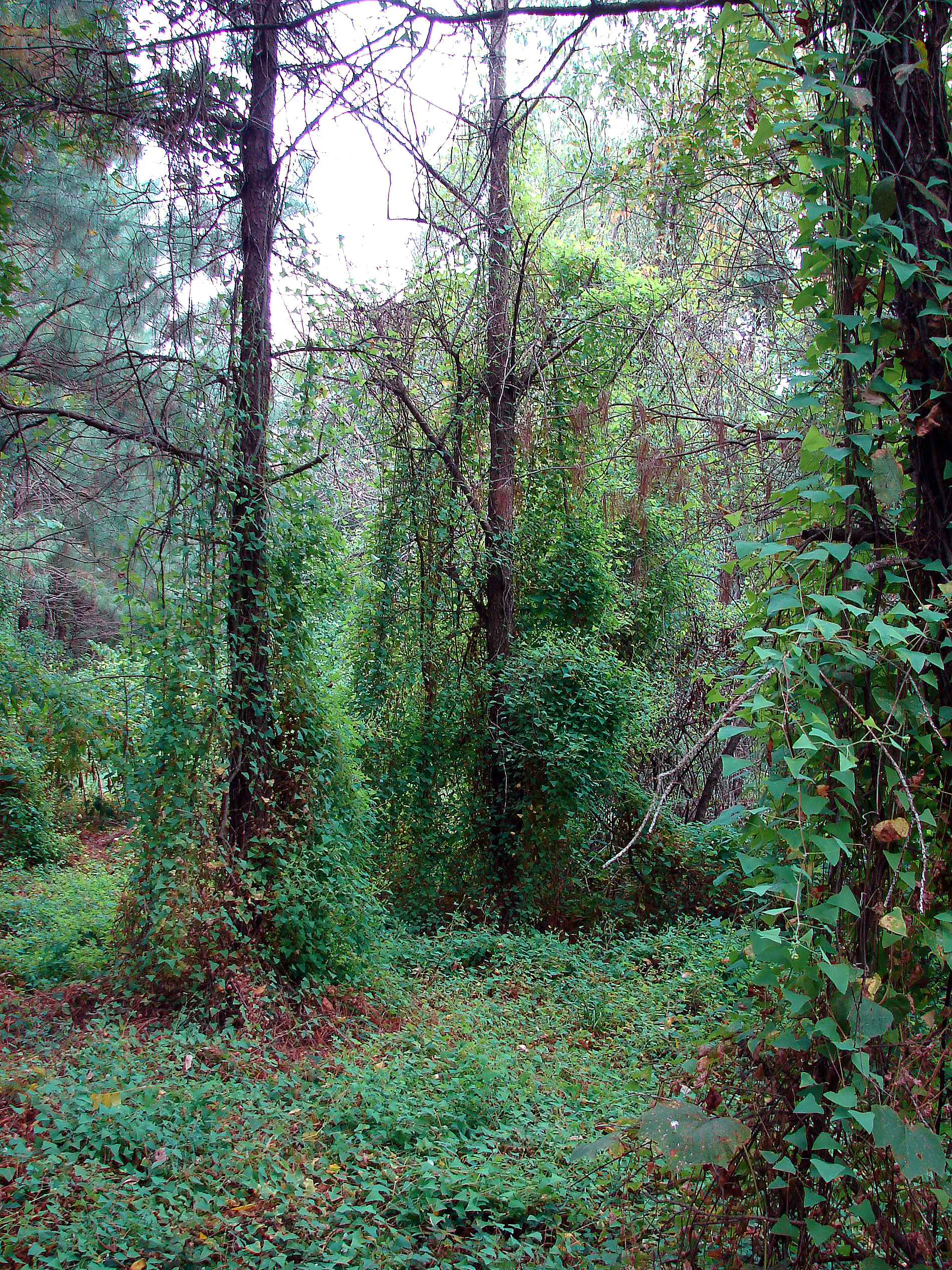 Not really a fantastic shot or anything, especially with that 'gorgeous' white sky ; ) But I thought I'd show off some MD woods.